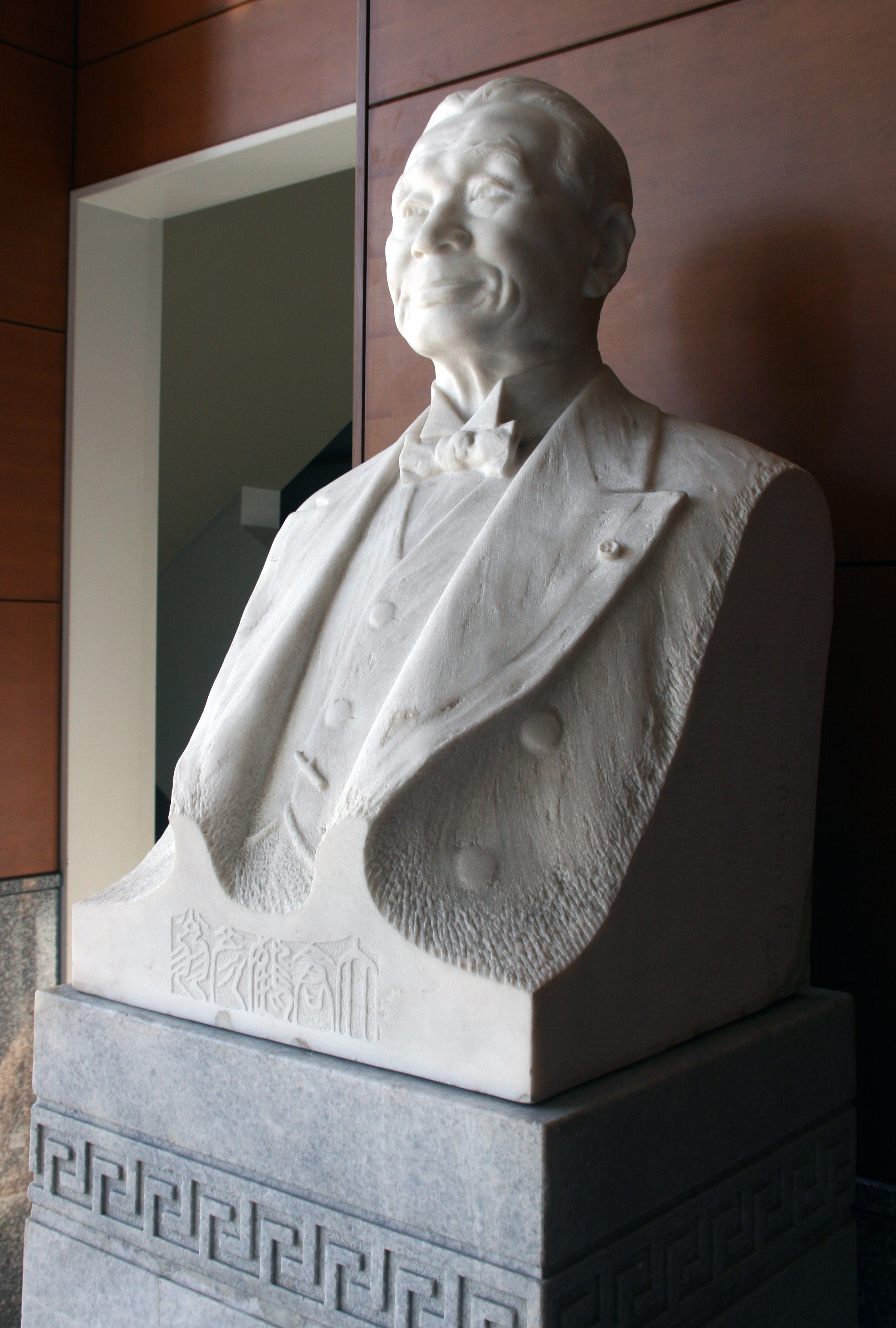 a portrait bust of Okura Kihachiro in Tokyo Keizai University Japan